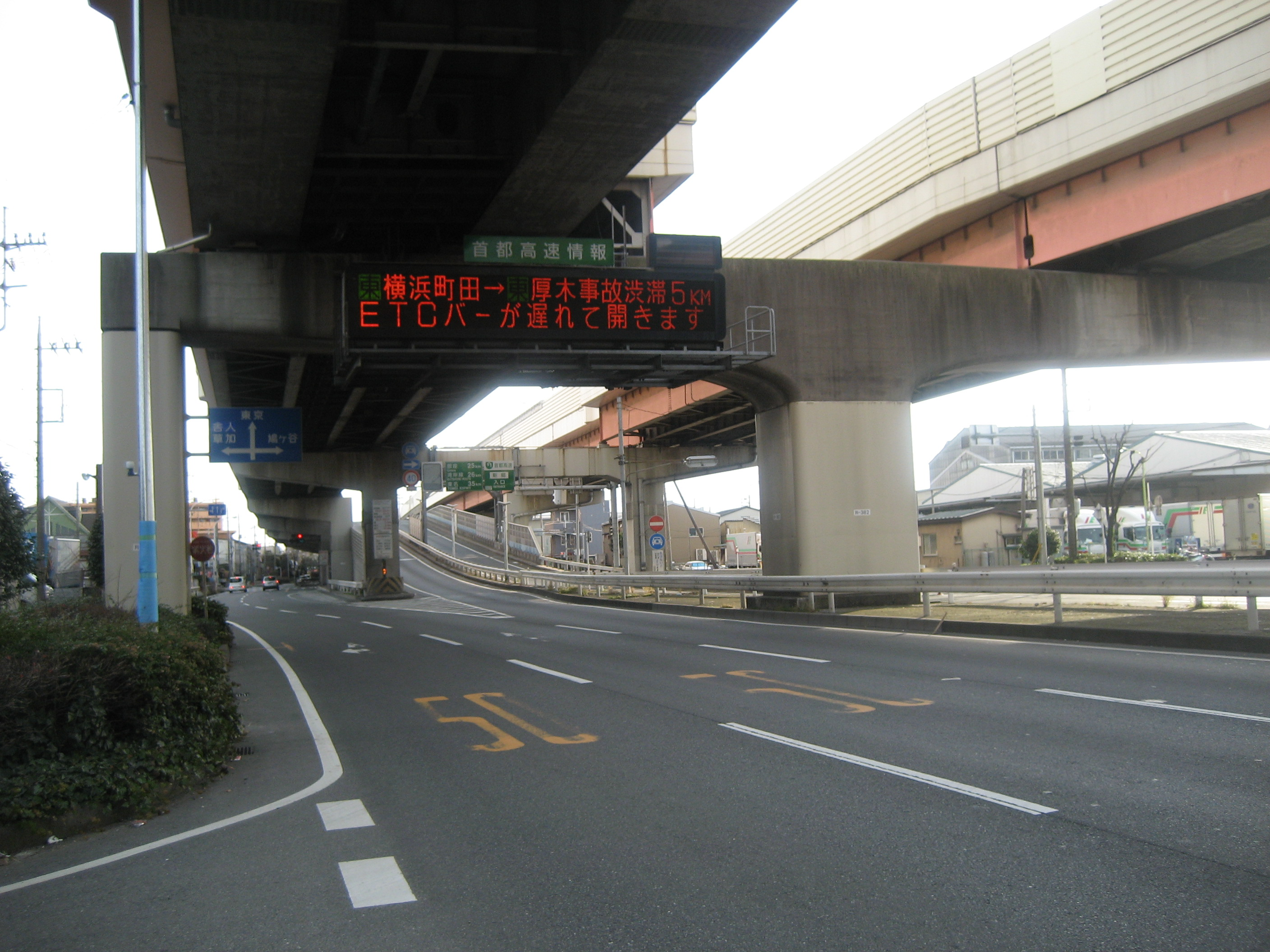 Shingo Interchange on the Metropolitan Expressway Route S1, entrance for Tokyo